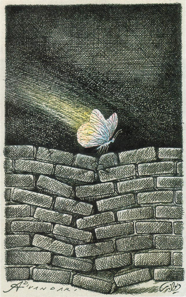 Cartoon by Ali Divandari that has been awarded in many international cartoon festivals.